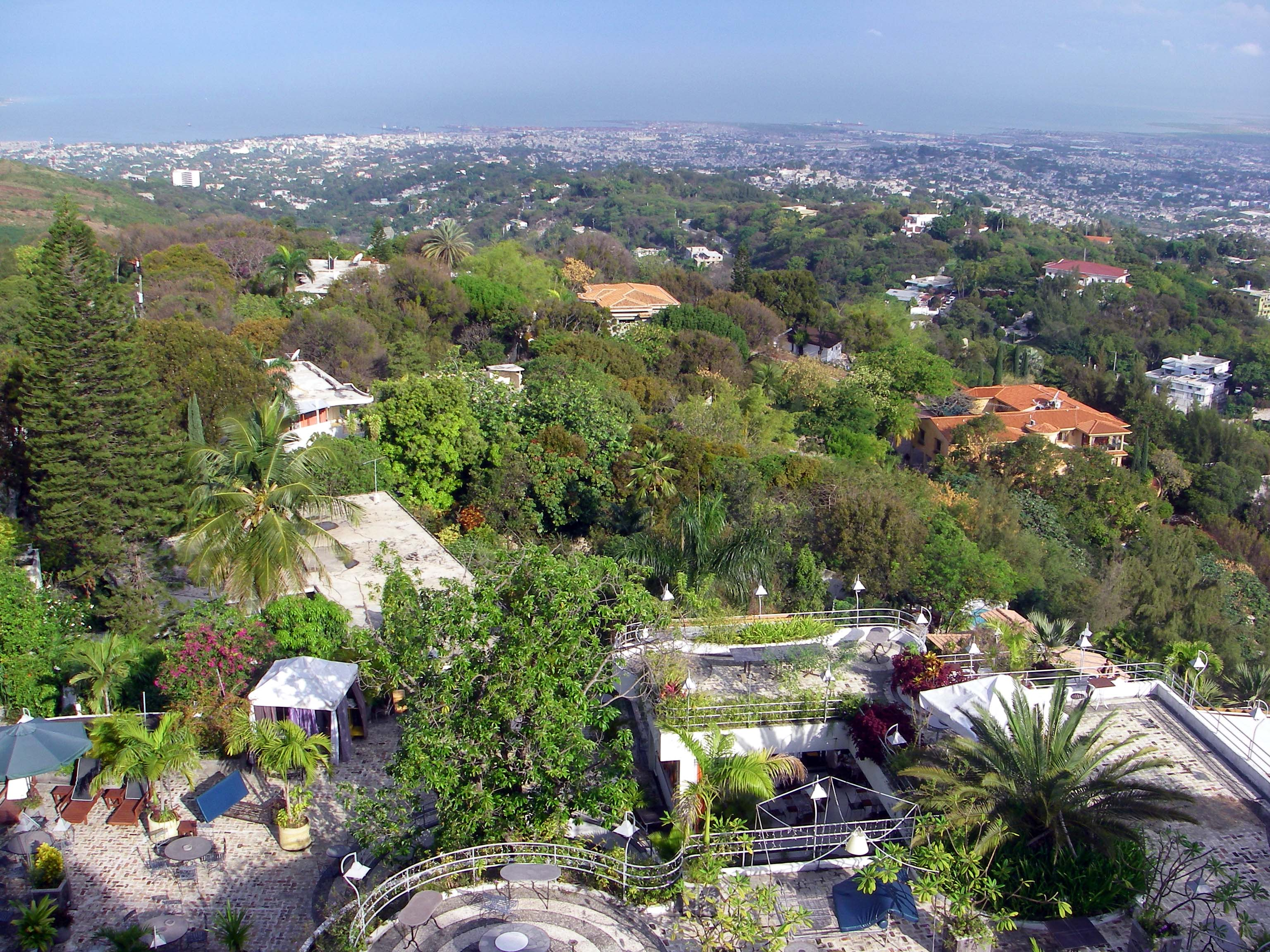 Some of the grounds and view from Hotel Montana, in Port-au-Prince, Haiti, in 2007. The hotel was destroyed by the 2010 Haiti earthquake.